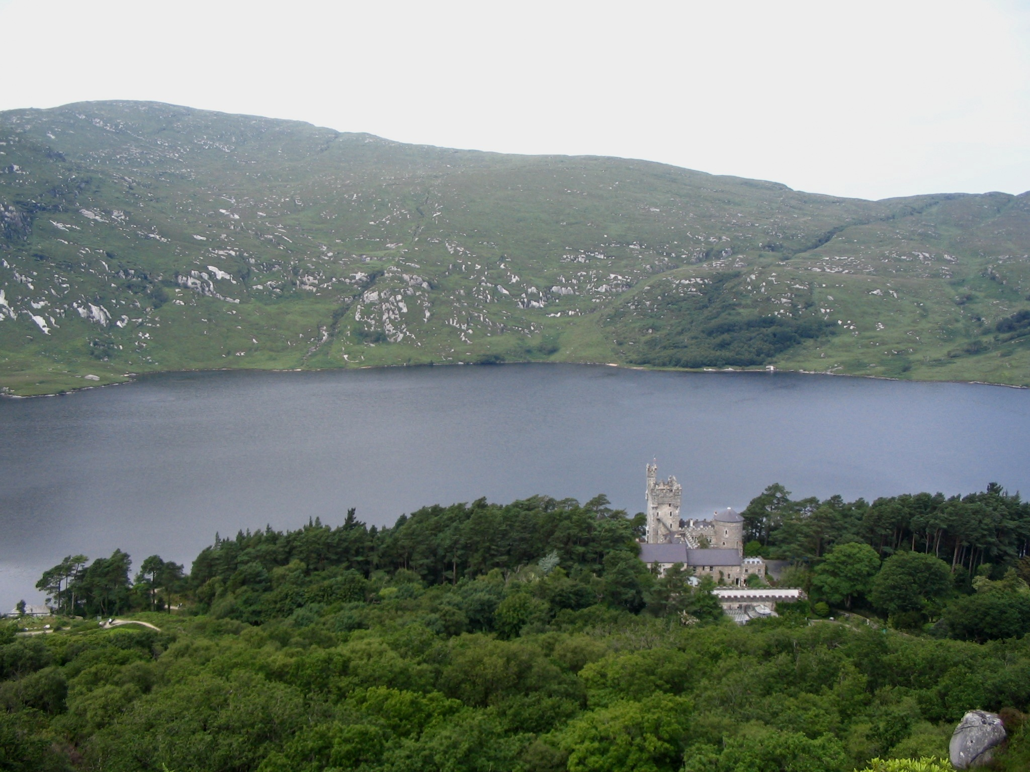 Glenveagh Castle - Lough Veagh - Donegal